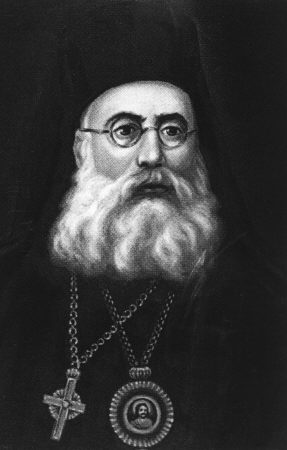 Portrait